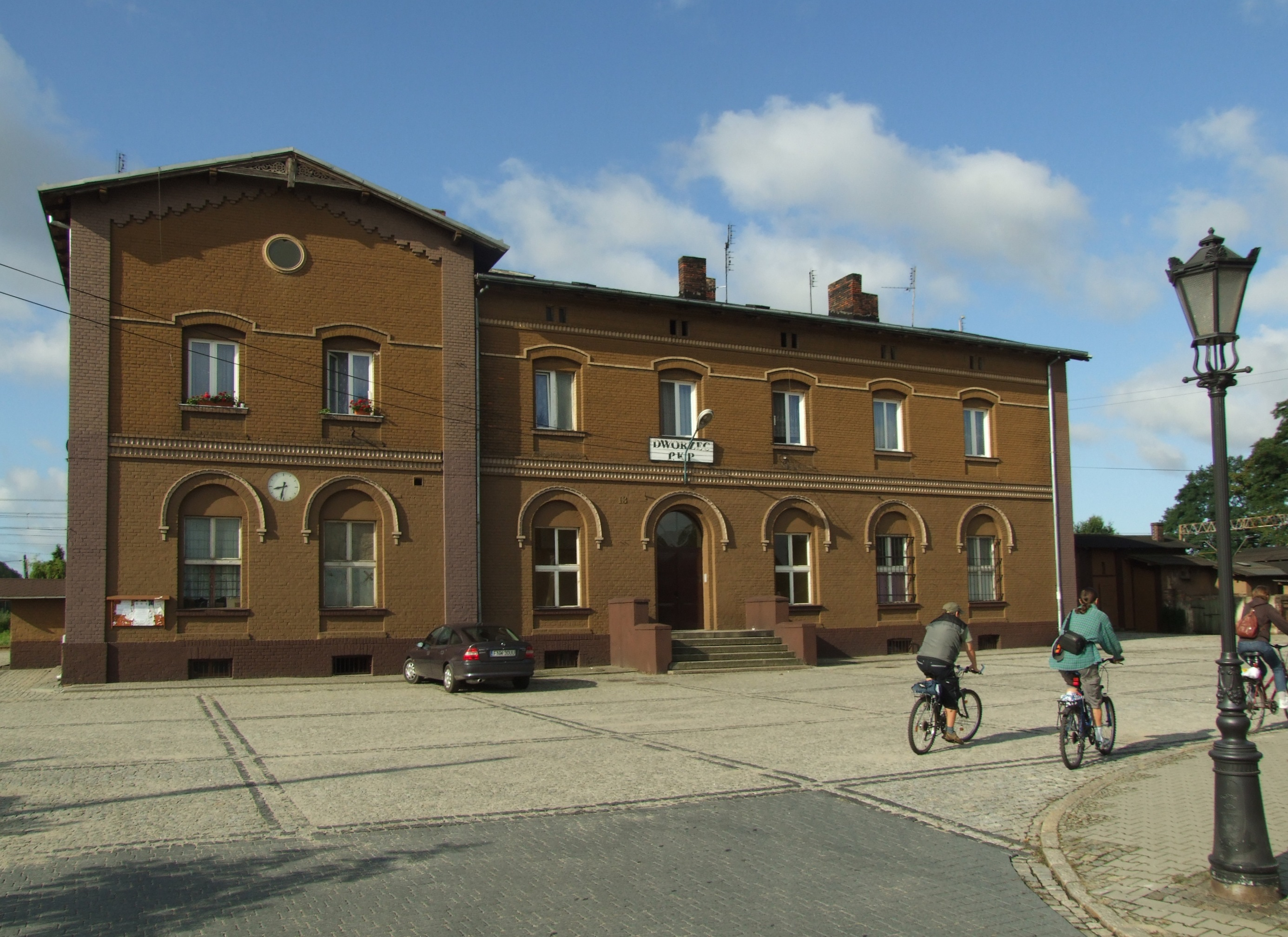 The train station in Bytom Odrzański, Poland